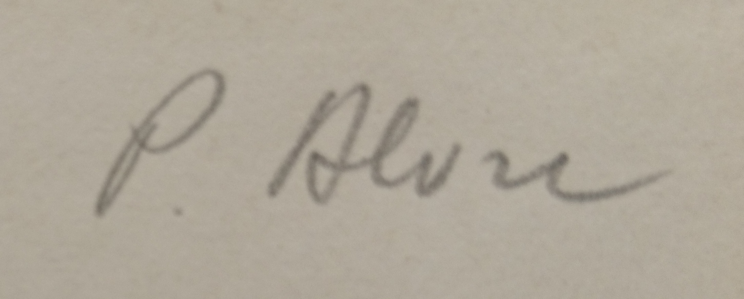 The signature of Estonian linguist Paul Alvre